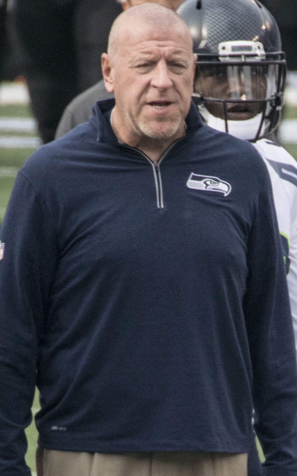 Seahawks at Ravens 12/13/15